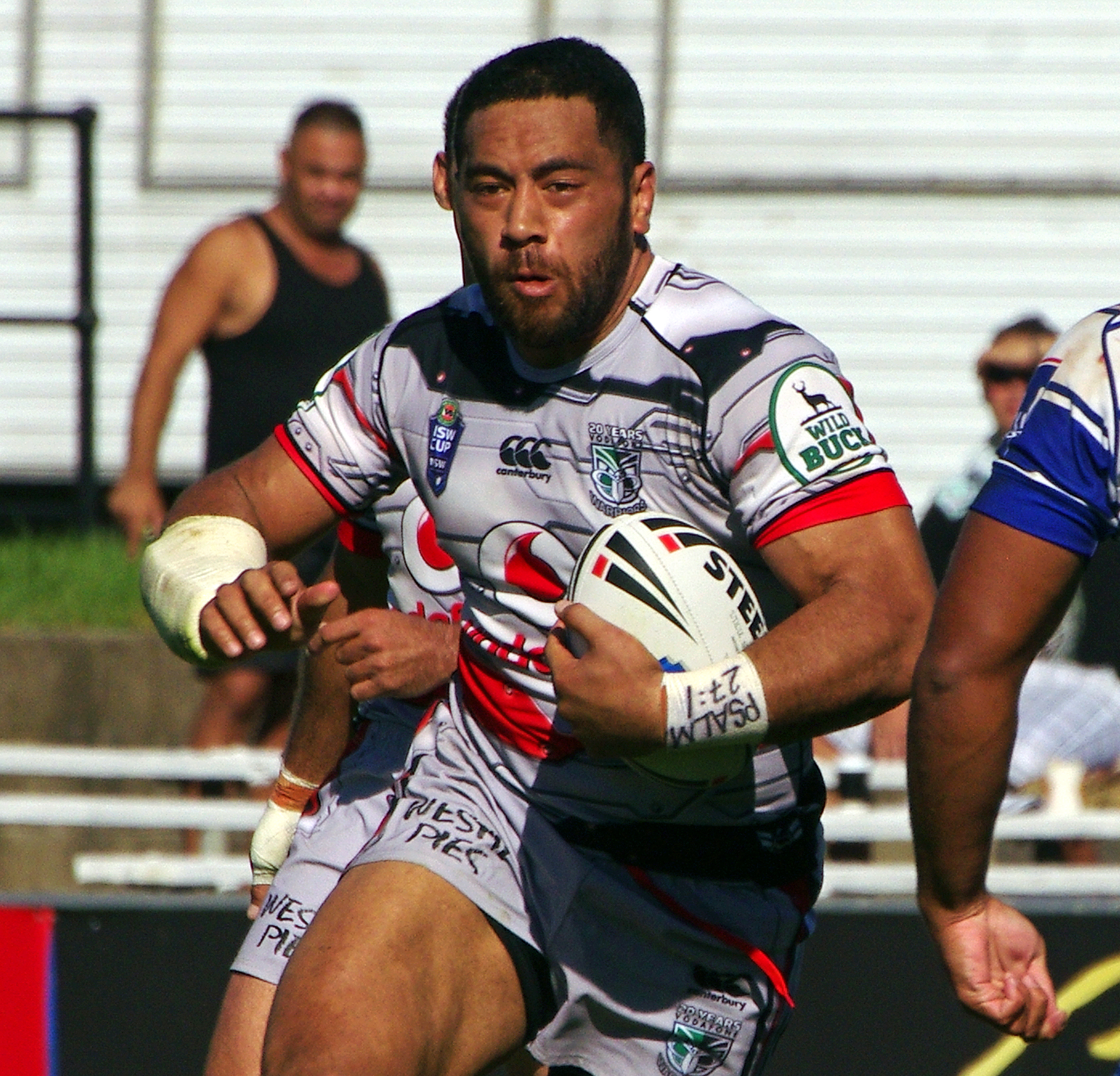 Suaia Matagi